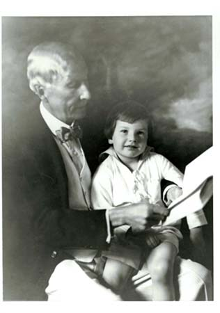 John and young Mr. David Rockefeller